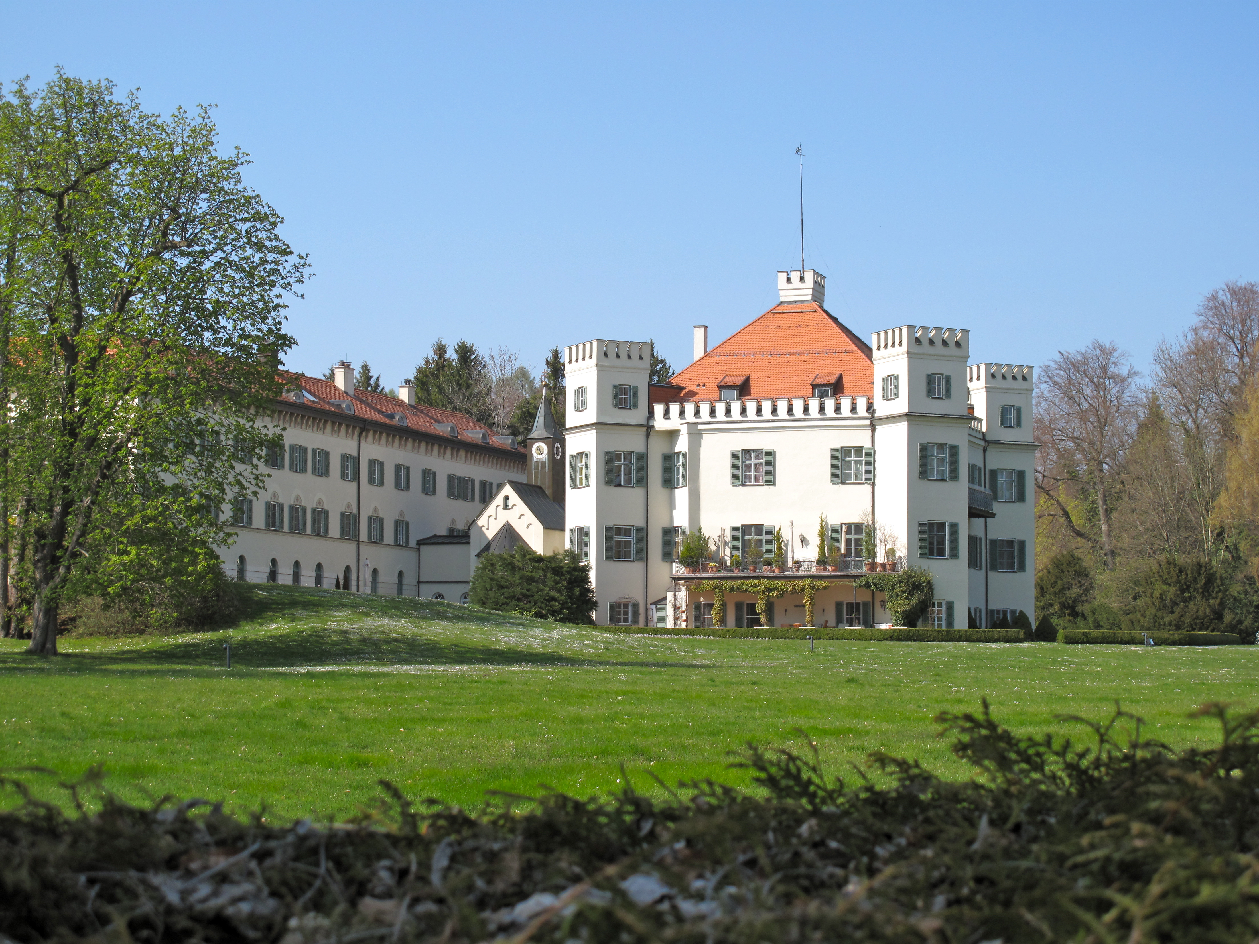 The castle "Schloss Possenhofen" at the Lake Starnberg in Bavaria, Germany.